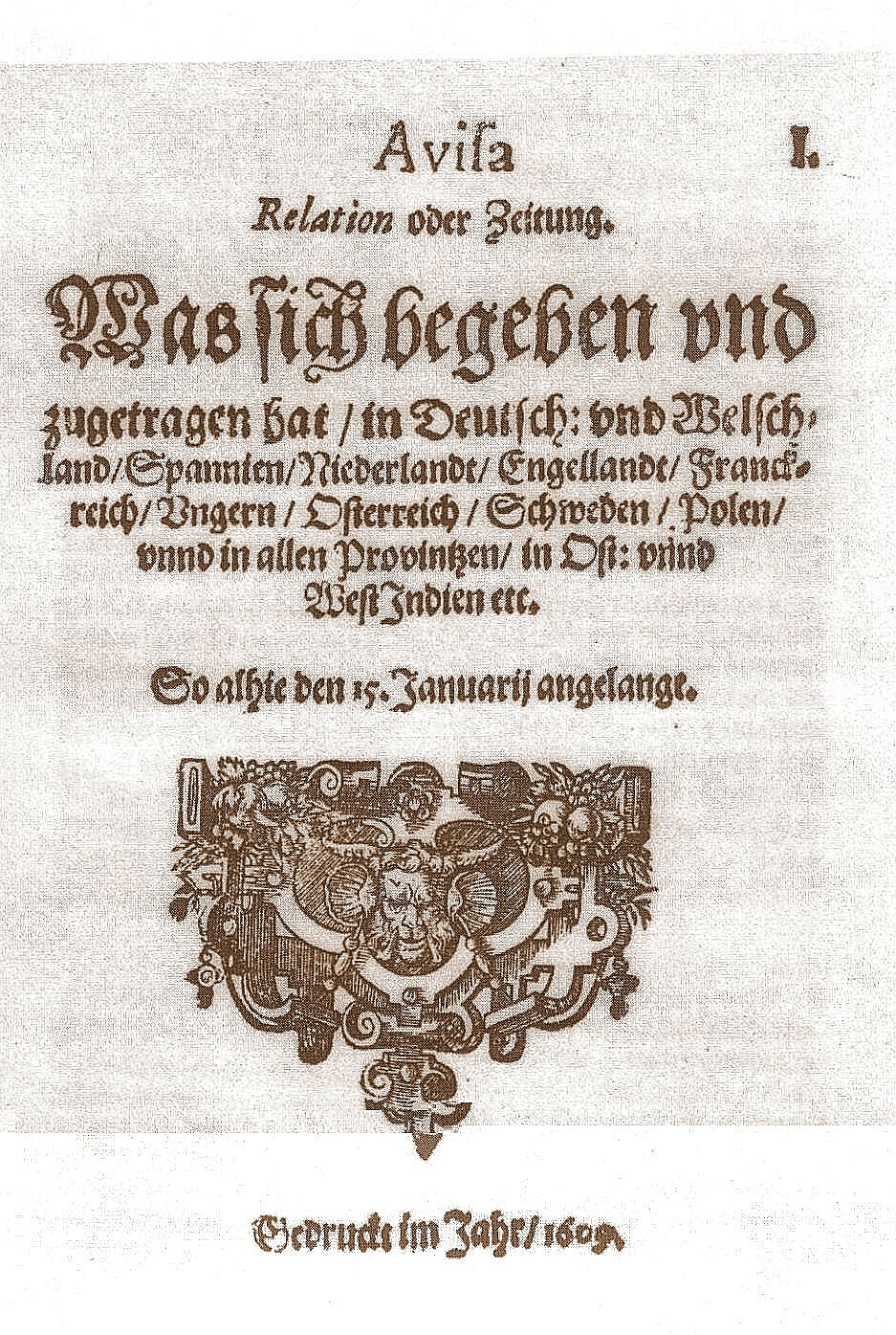 Erstausgabe „Aviſa, Relation oder Zeitung“ vom 15.